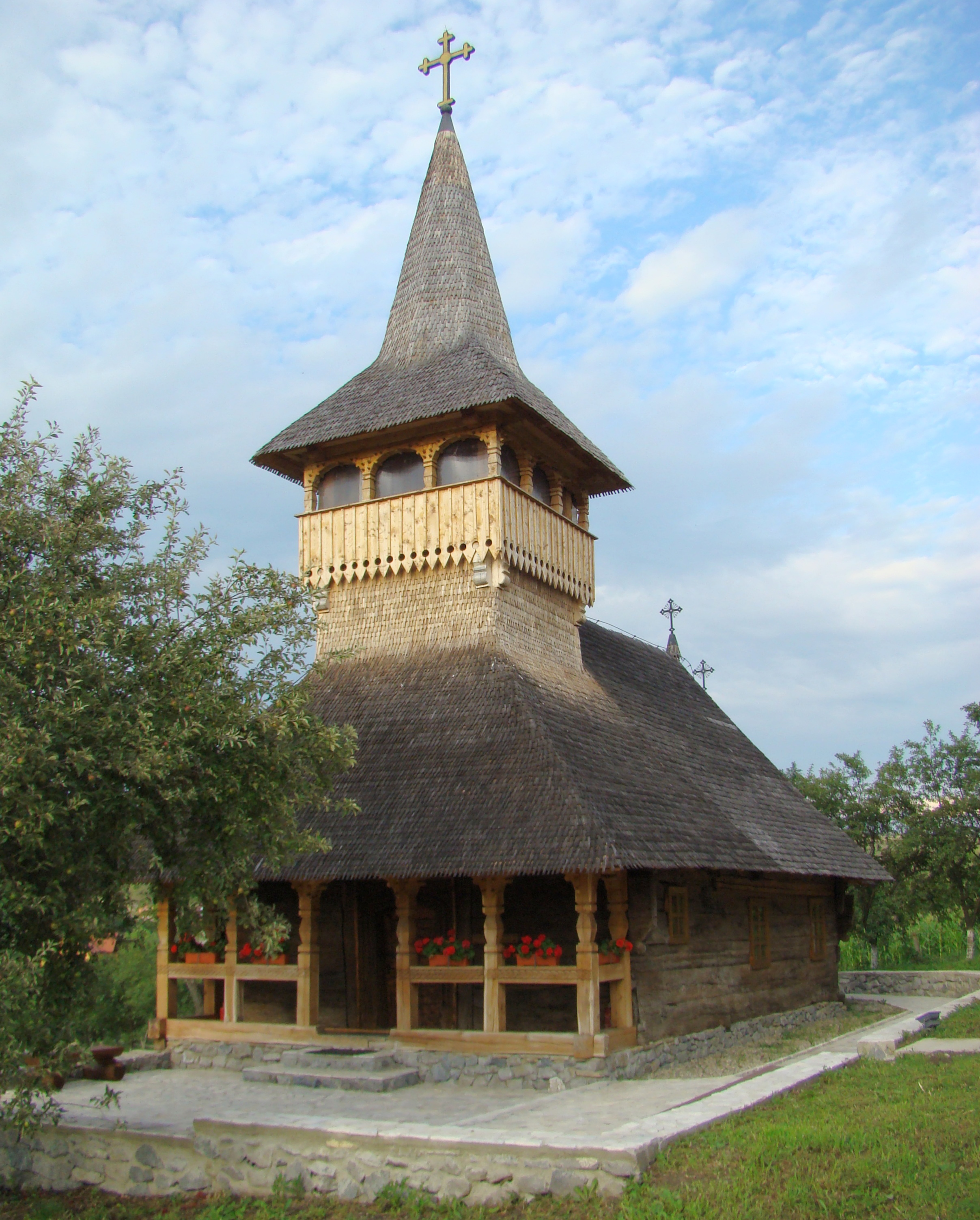 The old wooden church in Câmpenești, Cluj county, Romania